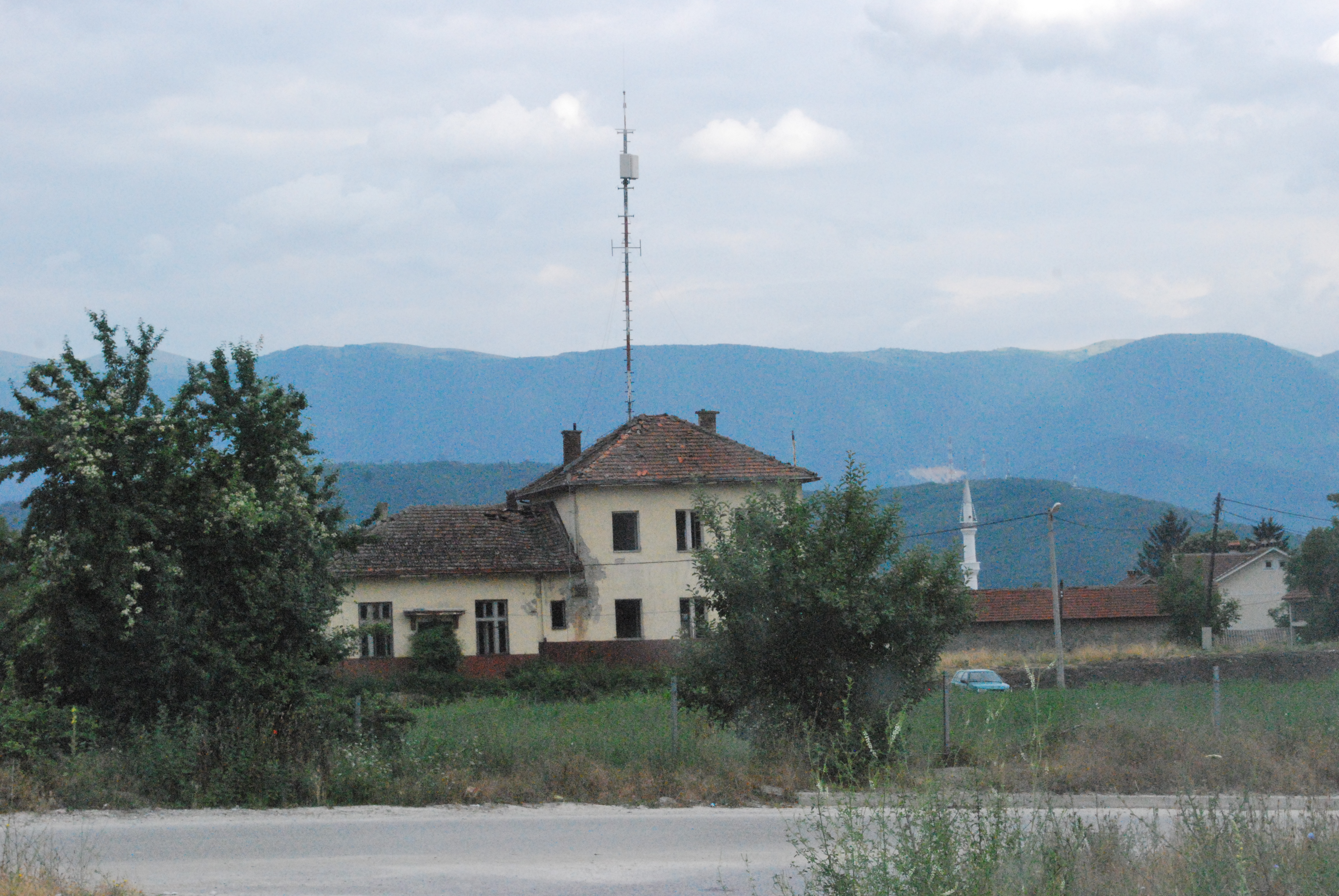 Rail station in Žerovjane, Macedonia